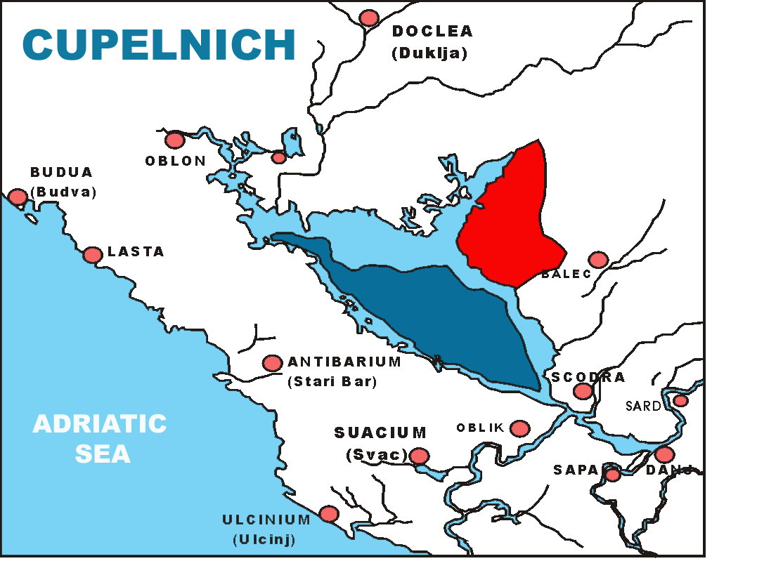 Cupelnich district (Dioclia c. XI AD)